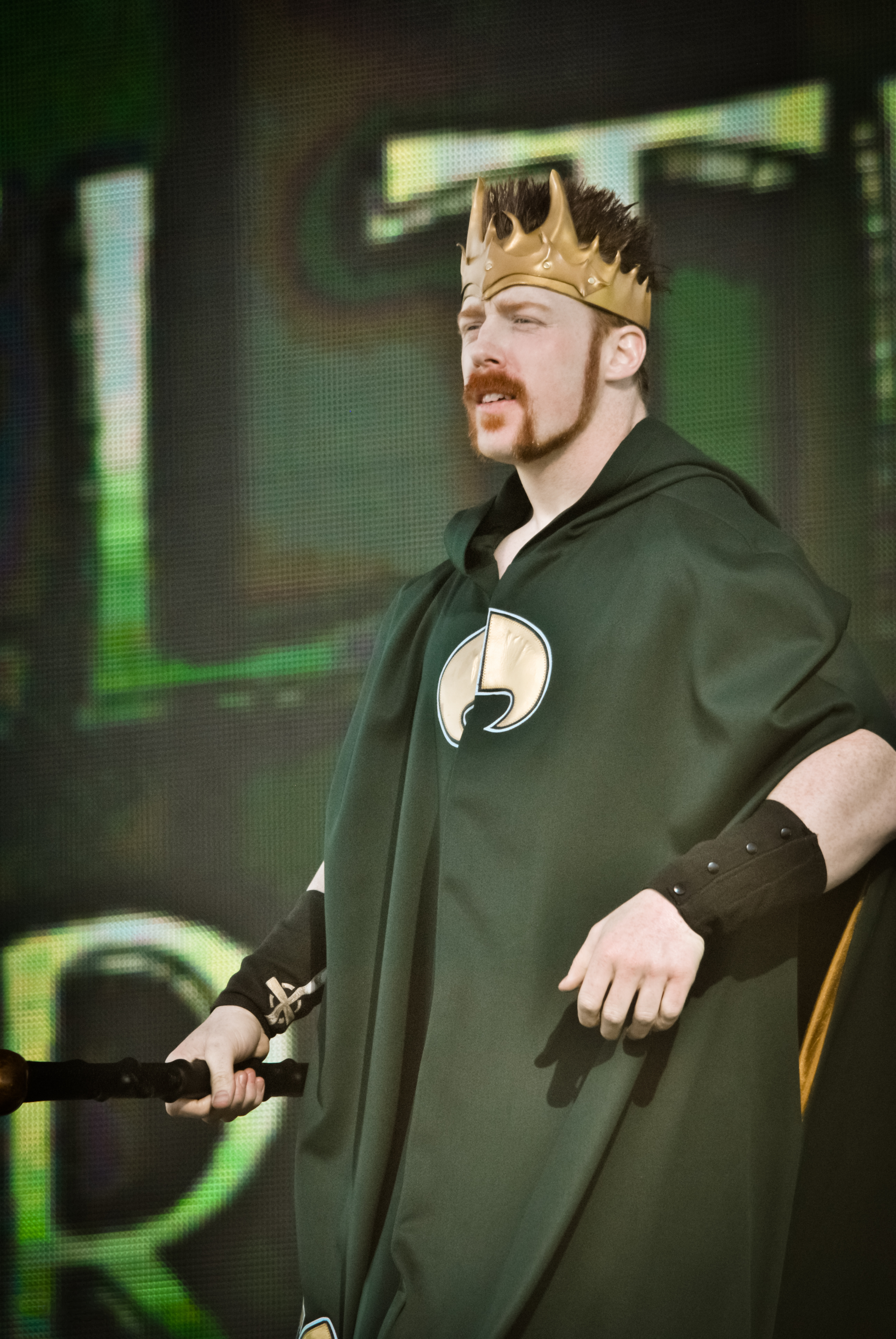 Sheamus during WWE's annual Tribute to the Troops show in Fort Hood, Texas, on December 11, 2010.